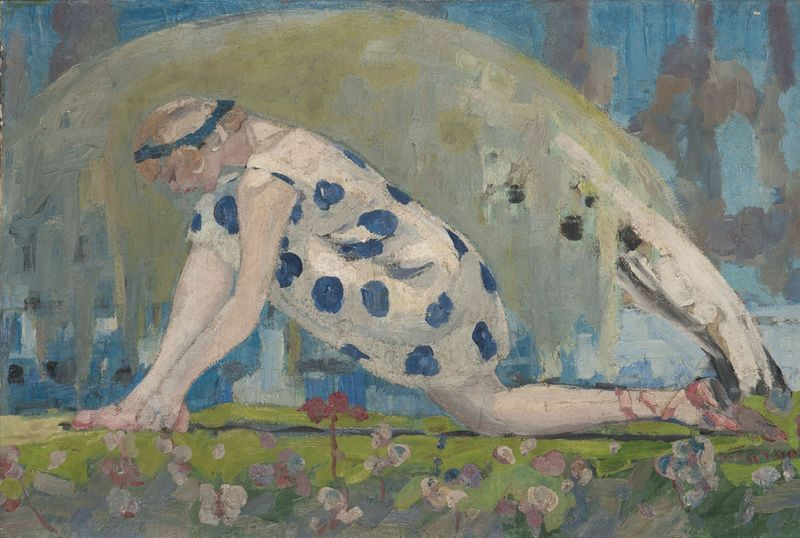 Danseuse